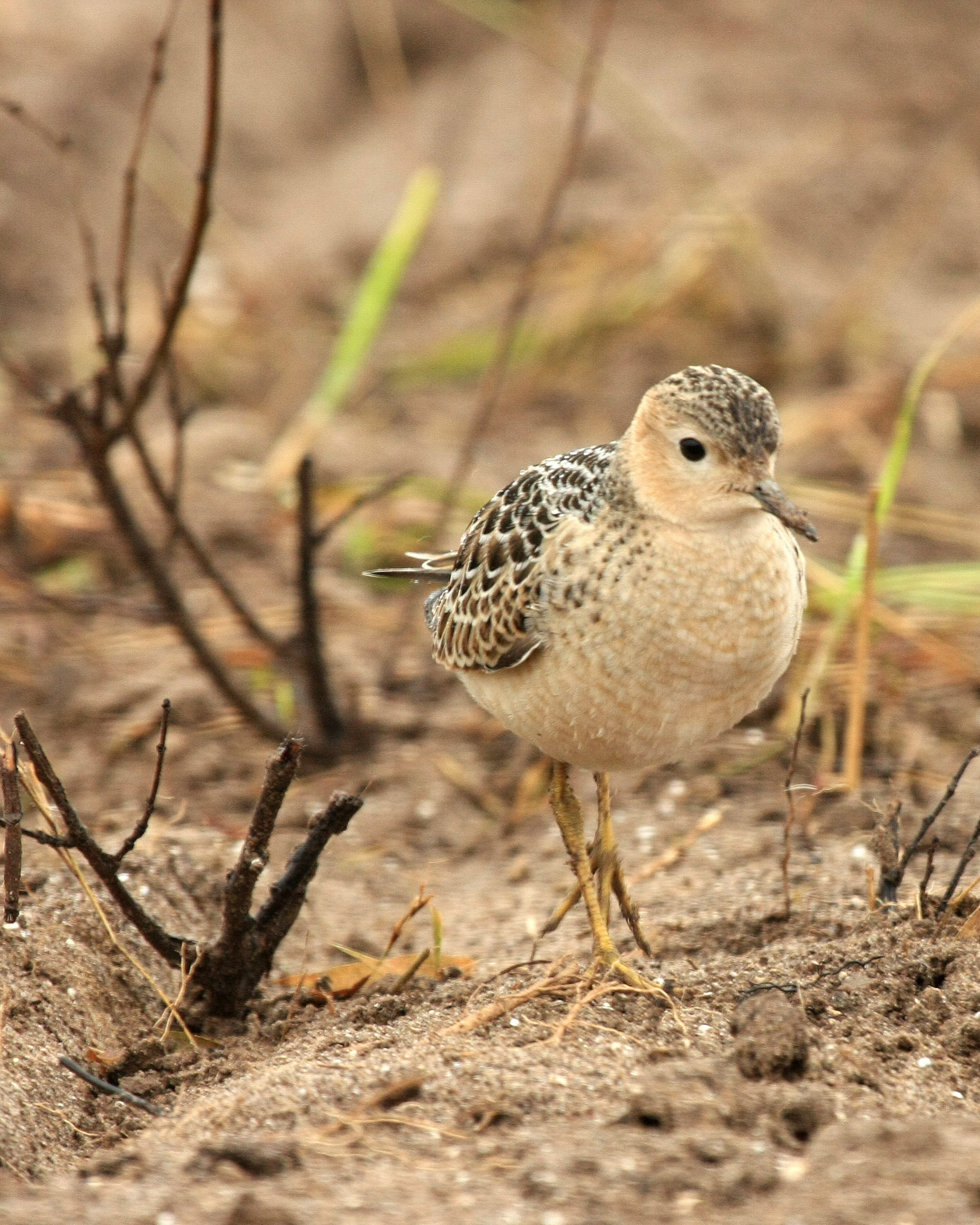 A Buff-breasted Sandpiper in Montezuma, New York, USA.